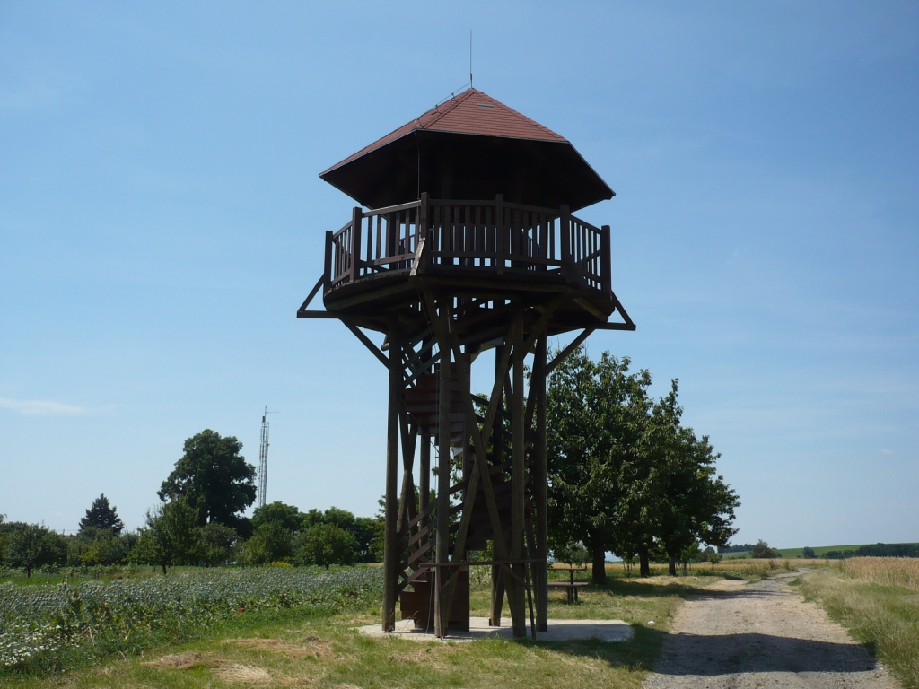 Observation Tower Douby - view from path